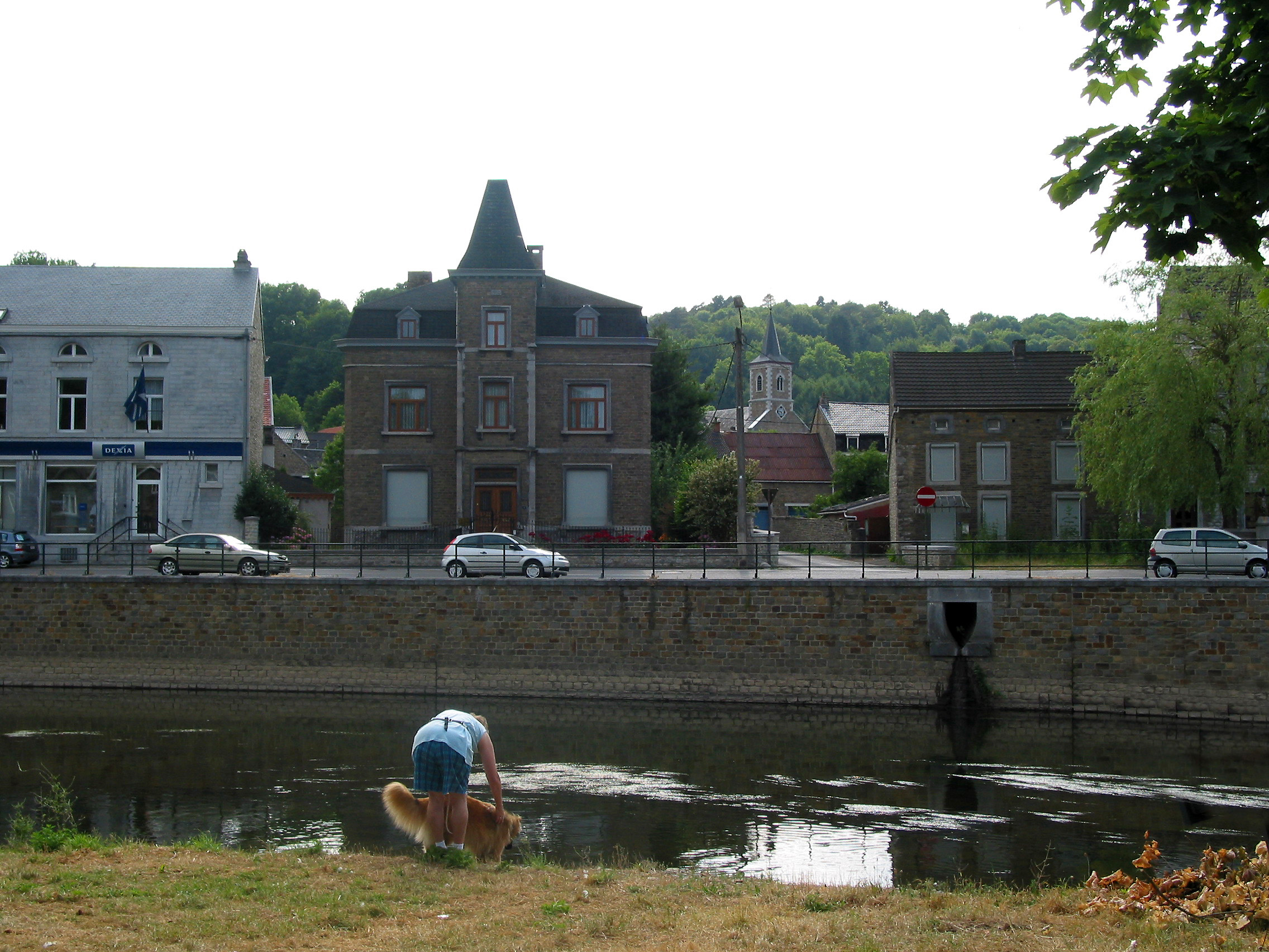 Comblain-au-Pont (Belgium), wharf along the Ourthe river.